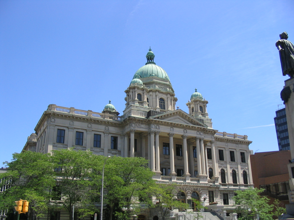 photo of Onondaga County Courthouse in Syracuse, NY. Taken by me on June 12, 2004